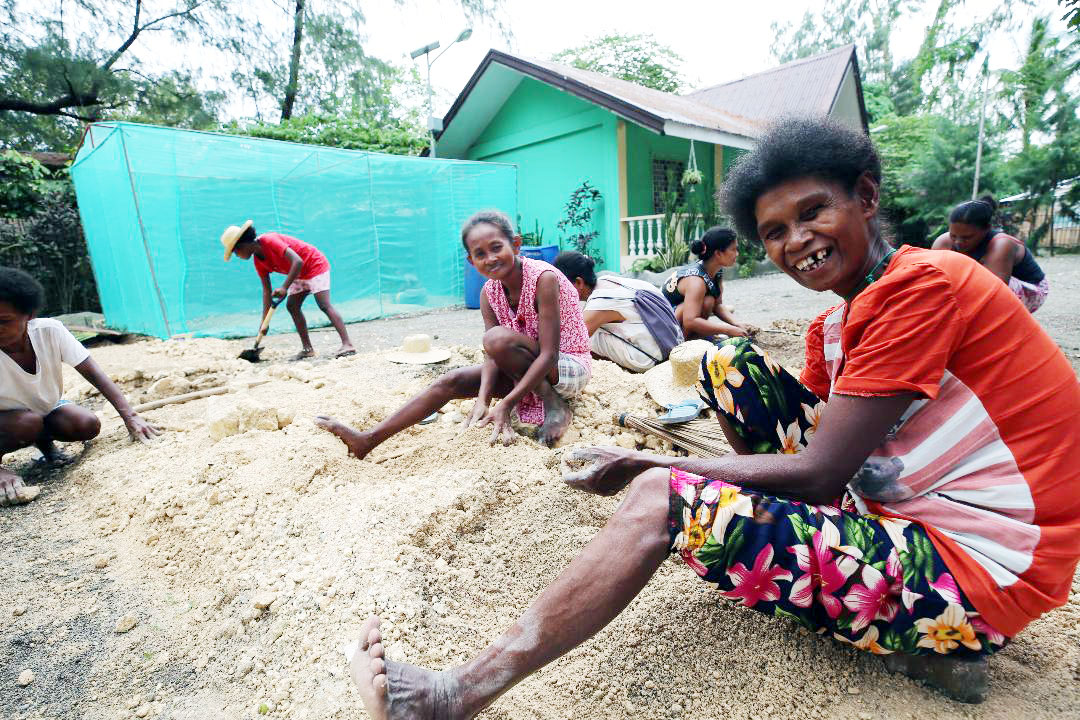 Smiling under the heat of sun, Ati tribe members cultivate the warm sand in Barangay Manoc-manoc in Malay, Aklan in preparation for vegetable seed planting as is one of their livelihood projects assisted by the Department of Agriculture (DA). DA Secretary Emmanuel Piñol visited the poverty-stricken area and initially committed PHP2 million in financial support to the indigenous peoples and women's groups of Boracay through the Survival Recovery (SURE) loan program